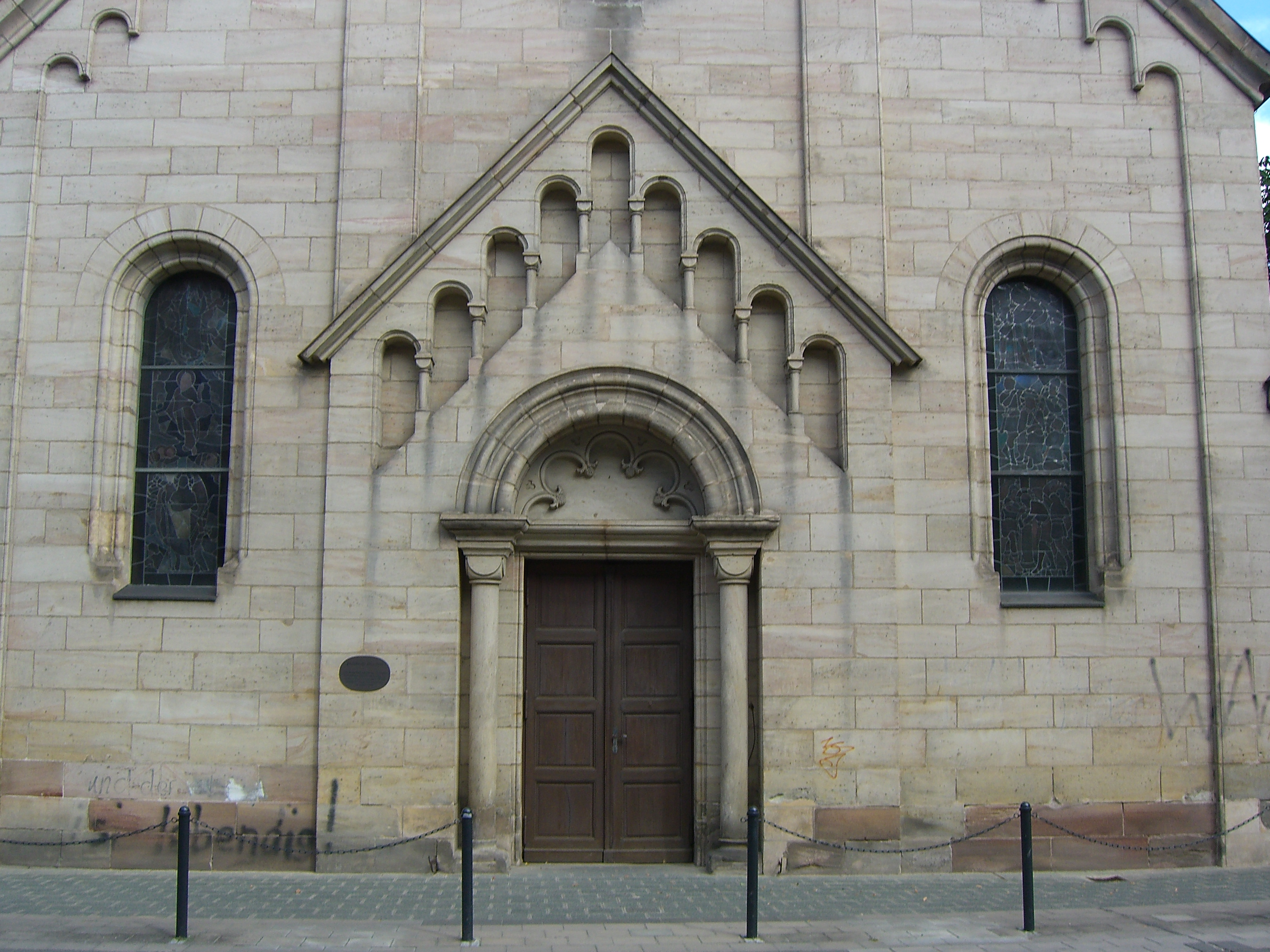 Side entrance of the Herz Jesu Kirche (Heart of Jesus Church), the first catholic church in Erlangen, Germany after the reformation.